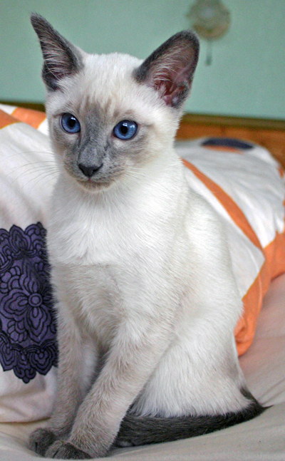 Phaithai Weeko vom Schloss Charlottenhof, Old-Style Siamese cat blue point.